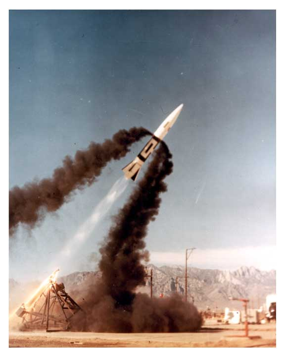 XMGM-52A Lance in test launching at WSMR.